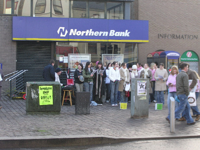 Festive mode in Omagh centre. Carol singers outside the Northern Bank in Market Street. To the right is the Tourist Information Centre. Further to the right, but not included in the frame is the turn-off to Scarffe's Entry and Market Street continues on as High Street.